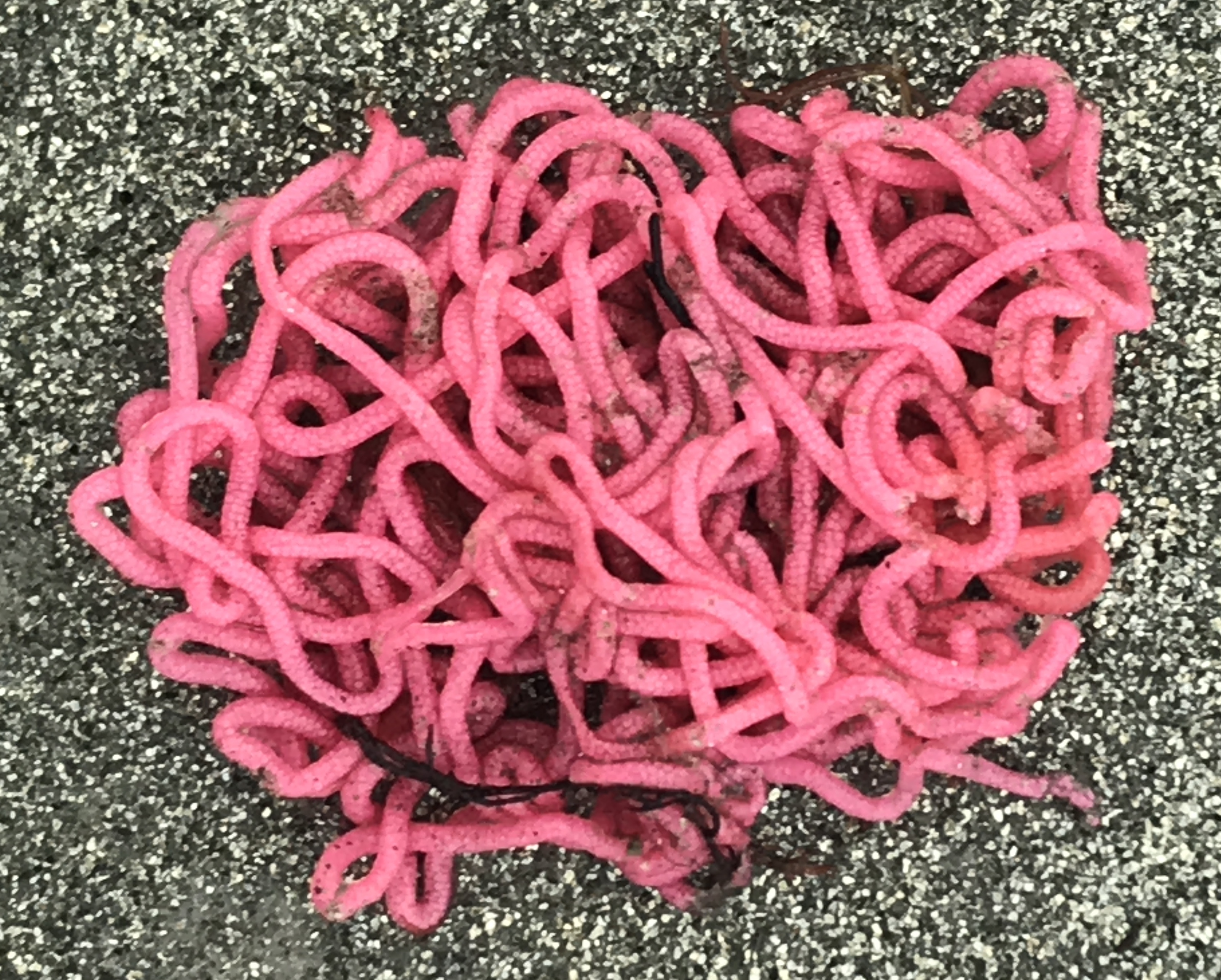 Eggs of Aplysia sp. washed ashore on a sandy beach, Stewart Island /Rakiura, New Zealand. Photo by Nick Longrich